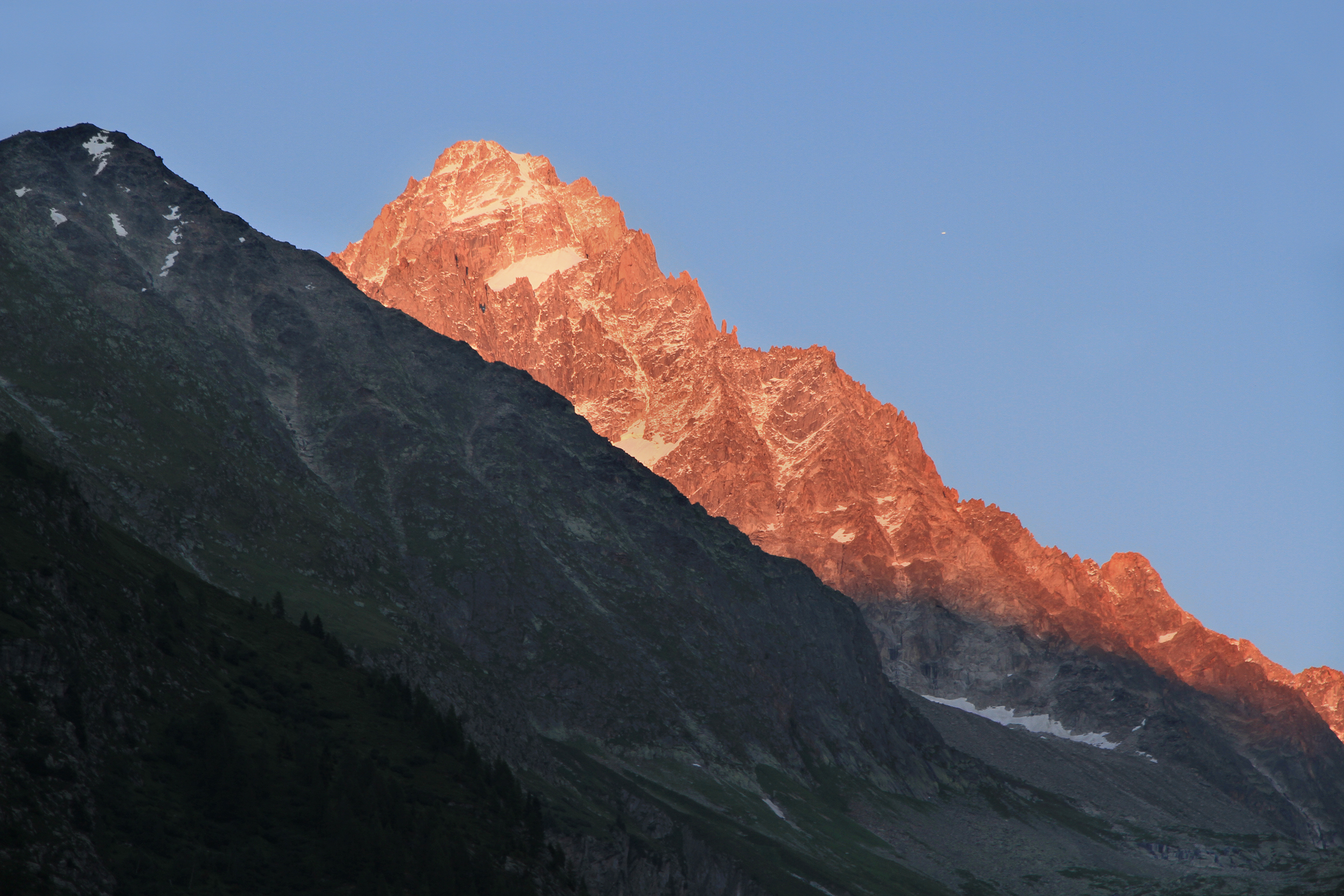 Alpenglow on Aiguille du Chardonnet (3,824 m) as seen from Argentière in evening in the end of 2010 July.